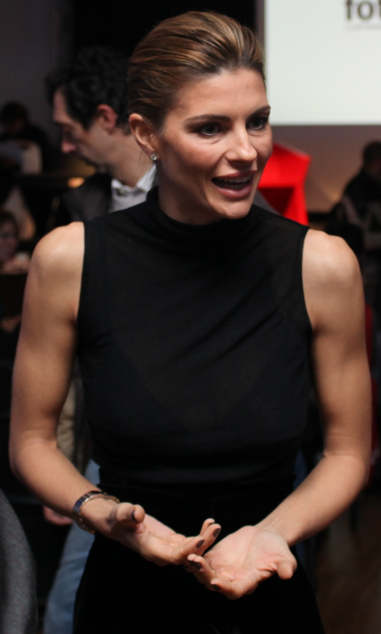 A cropped photograph of Martina Colombari at the fotografica10 photography and videography event.